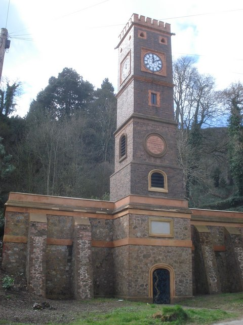 The Clock Tower - 2 Viewed from the North Malvern Road with the slopes of End Hill behind.